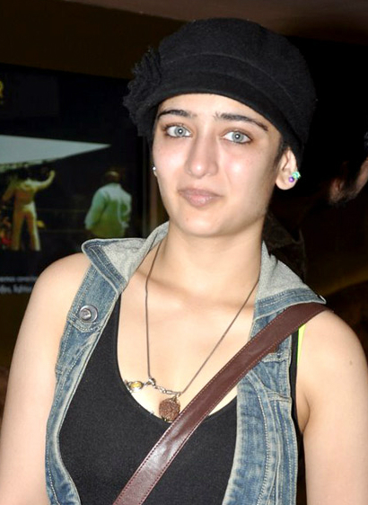 Akshara Haasan